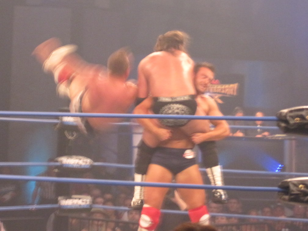 Sunday, June 12, 2011. Universal Orlando